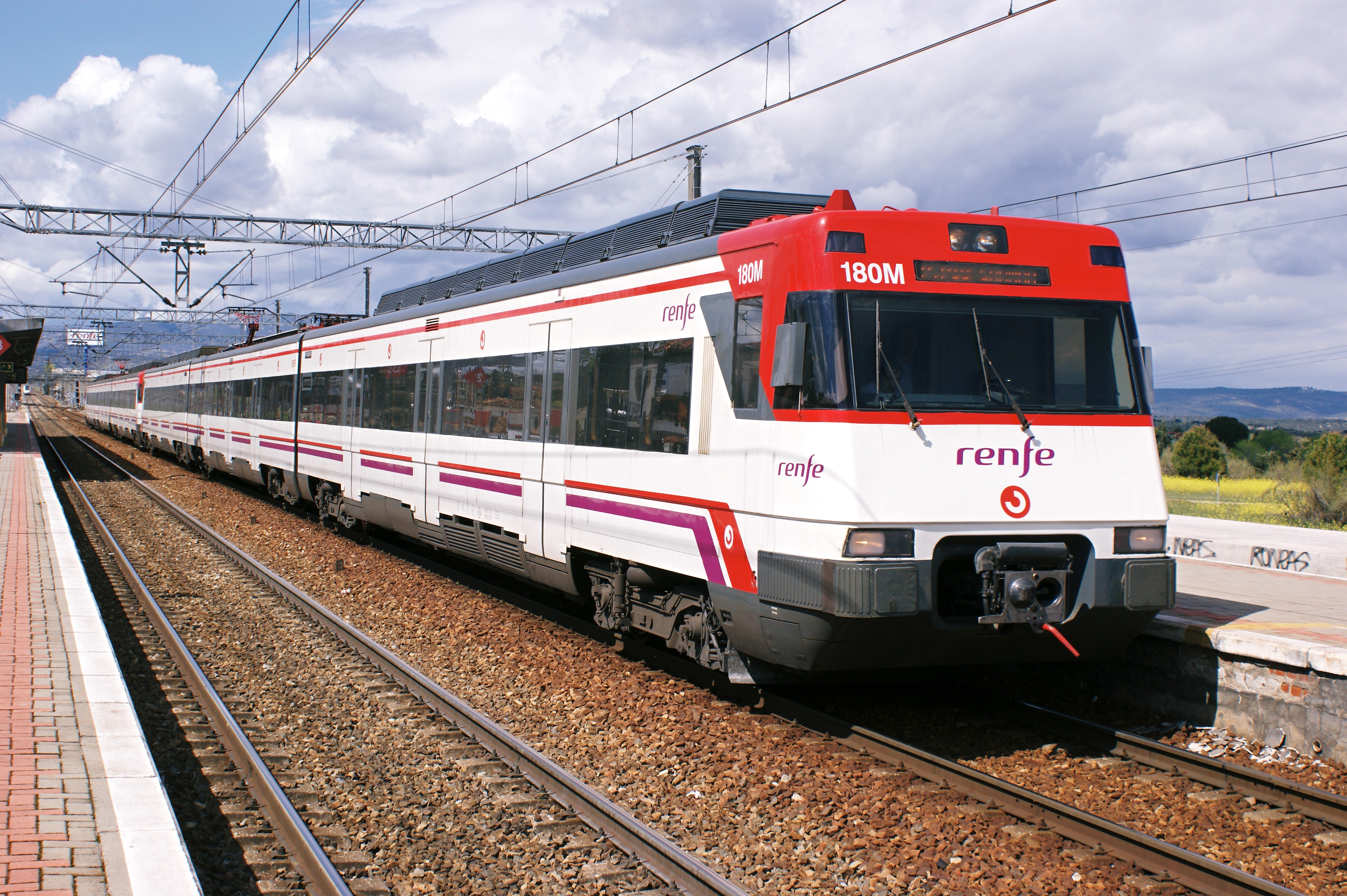 Cercanias 3-car emu No.180 at Pinar on a Charmartin service; 4/10.